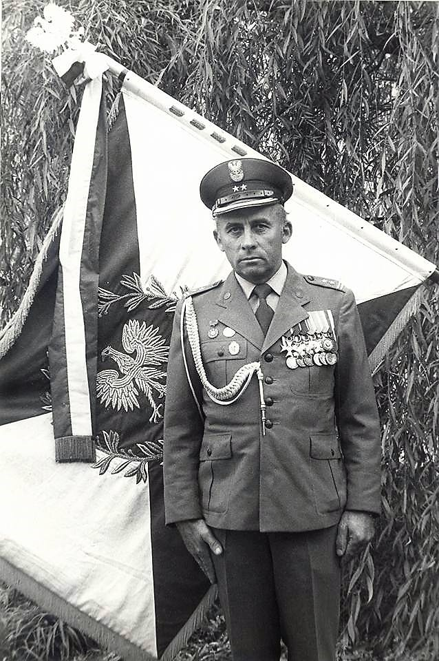 Włodzimierz Węgierkiewicz (Soldier of Poland)